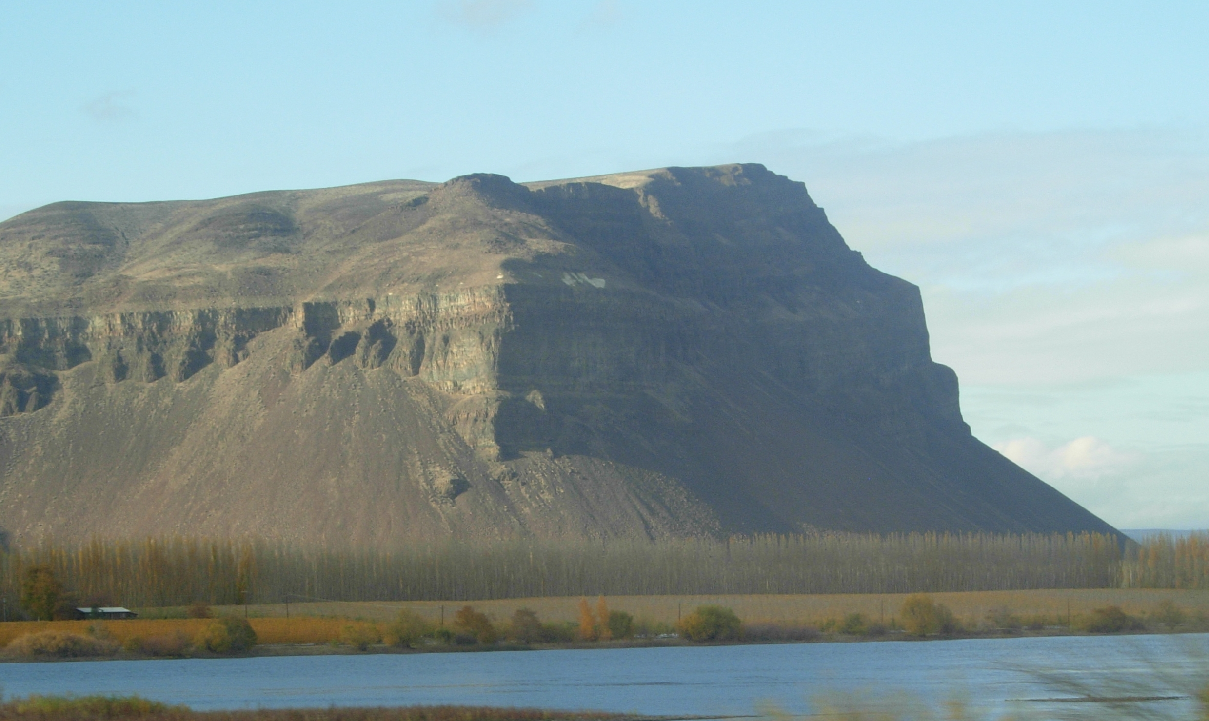 This wonderful basalt formation looms over the Columbia River just south of Wanapum Dam.